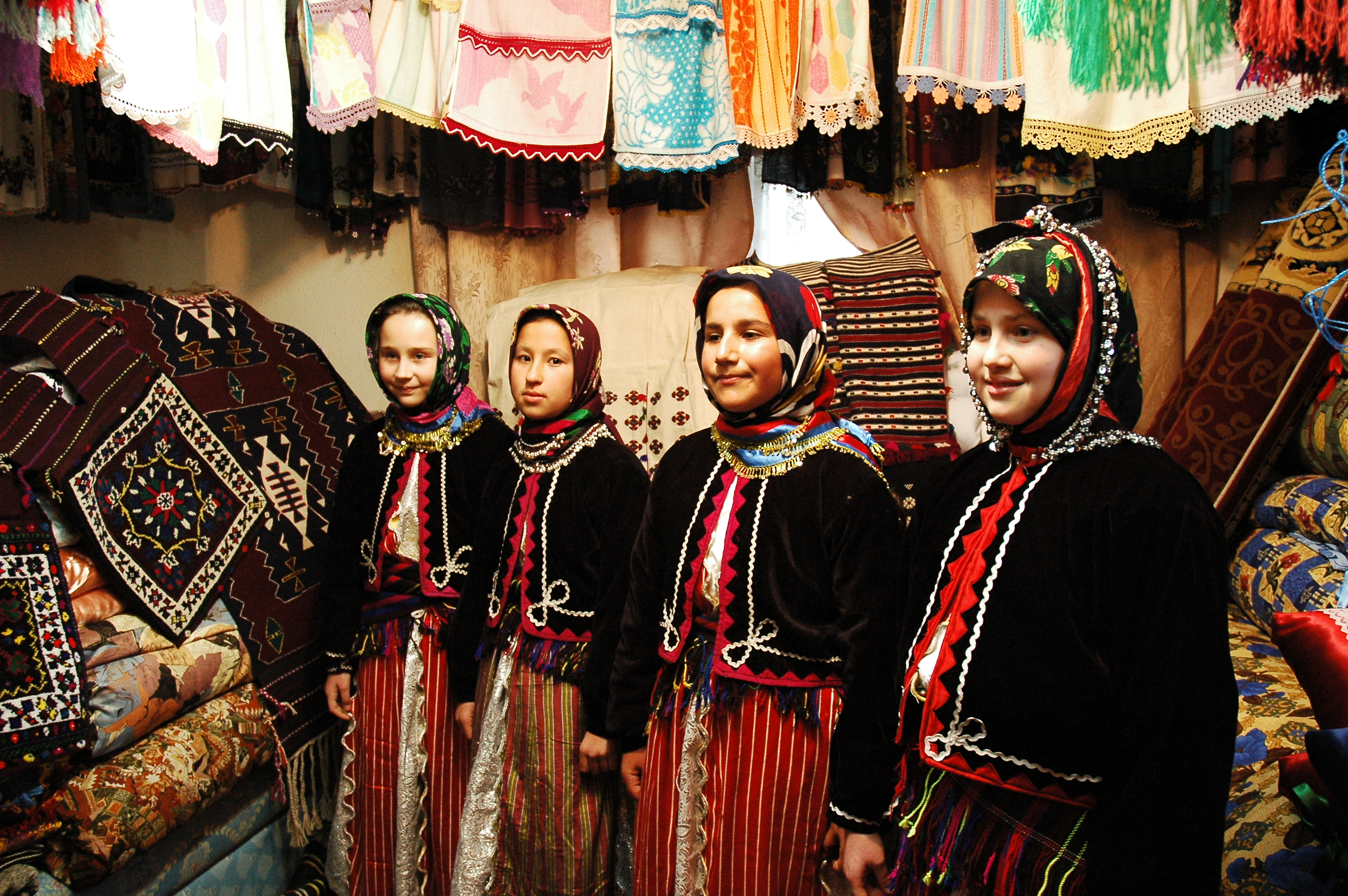 Special costumes belong to the Vicinity of Balıkesir, Turkey.